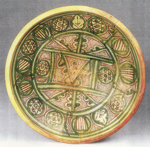 Tajador judeo-Spanish s.XIV. Plate (vessel) for cutting and serving meat at the table.